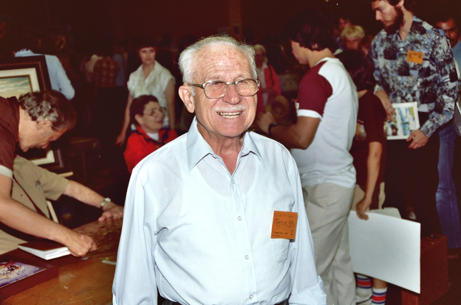 The voice of Donald Duck - Clarence "Ducky" Nash (1904-1985), at the 1982 San Diego Comic Con (today called Comic-Con International). depicted person: Clarence Nash (age: 77)